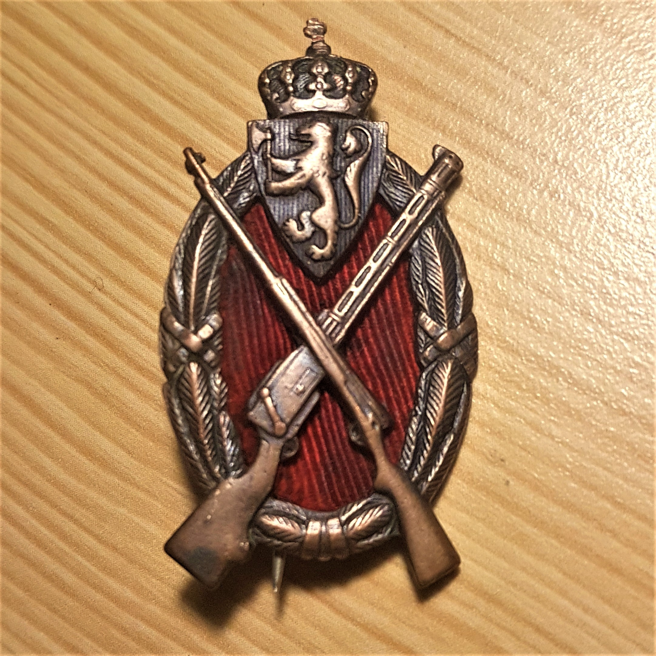 1924-1940 - Norwegian military sharp shooters badge in bronze